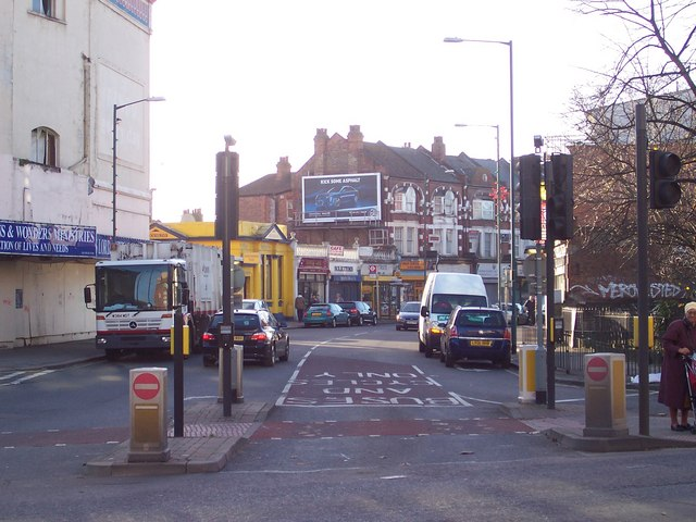 Church Road, Willesden, NW10 Church Road viewed from Brent Magistrates Court